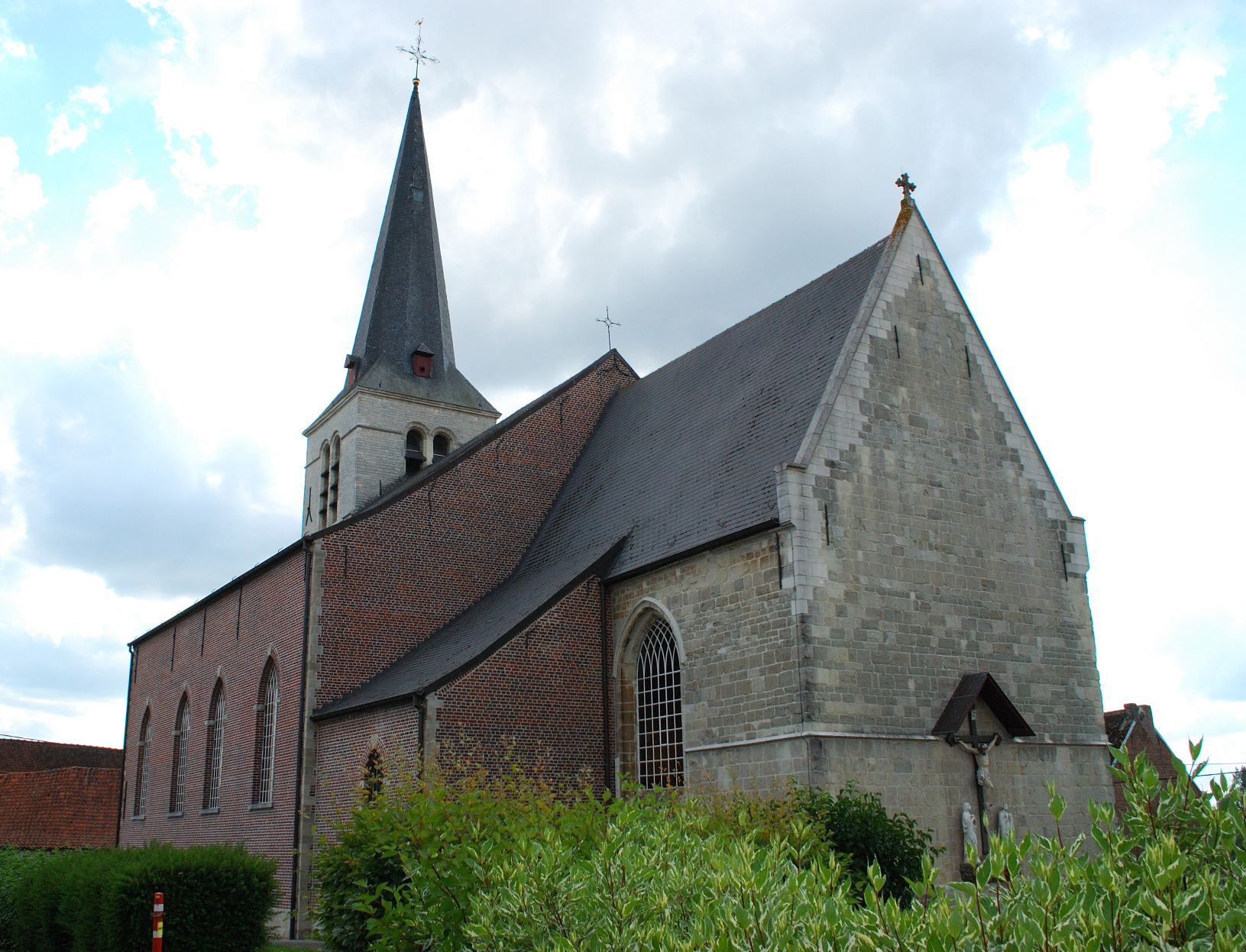 Church of Saint Amand at the village of Borchtlombeek, commune of Roosdaal, Belgium. Nikon D60 f=20mm f/10 at 1/400s ISO 200. Colour corrected and framed using Nikon ViewNX 1.0.3 and Adobe Photoshop 4.0.